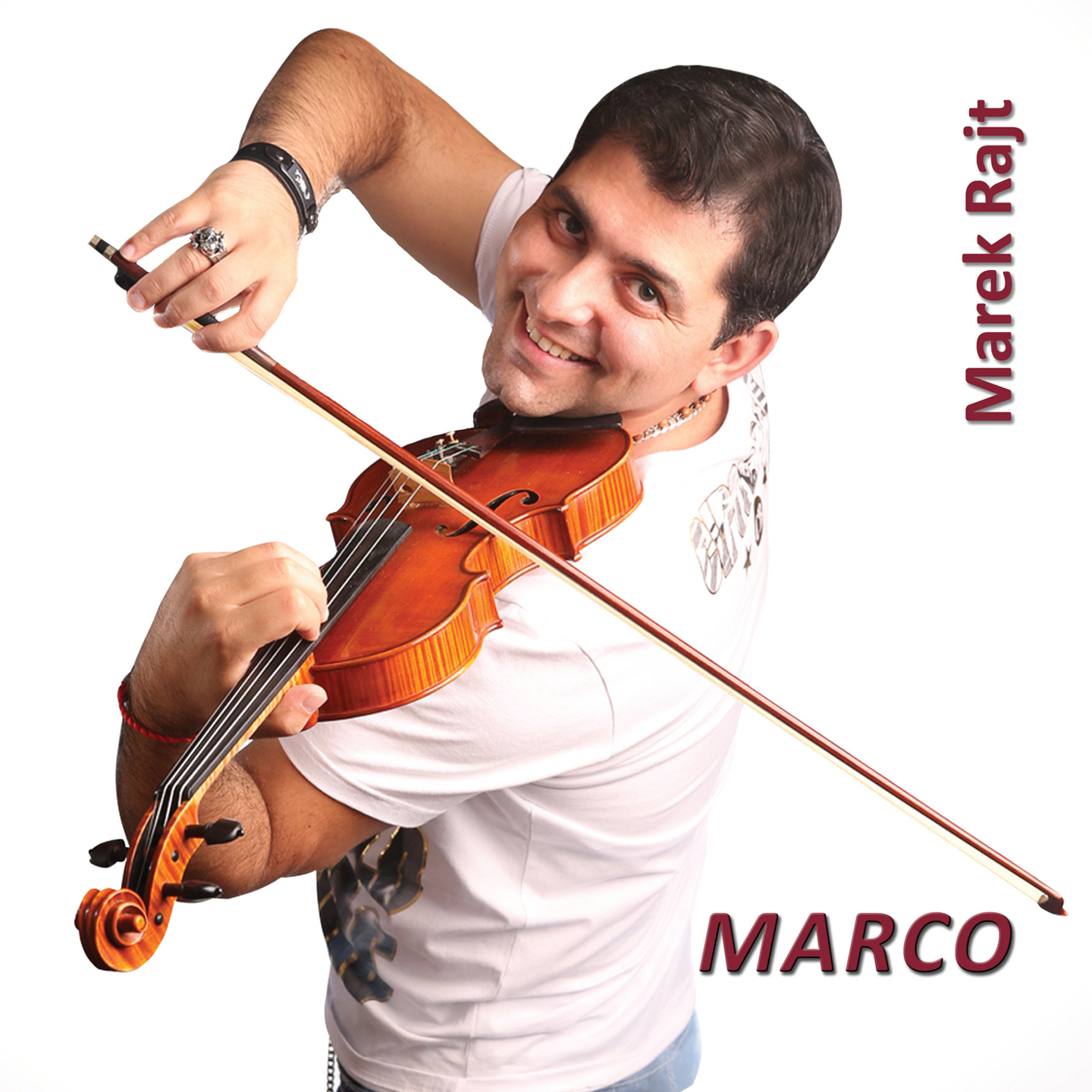 Marco Rajt, CD Marco (2015)